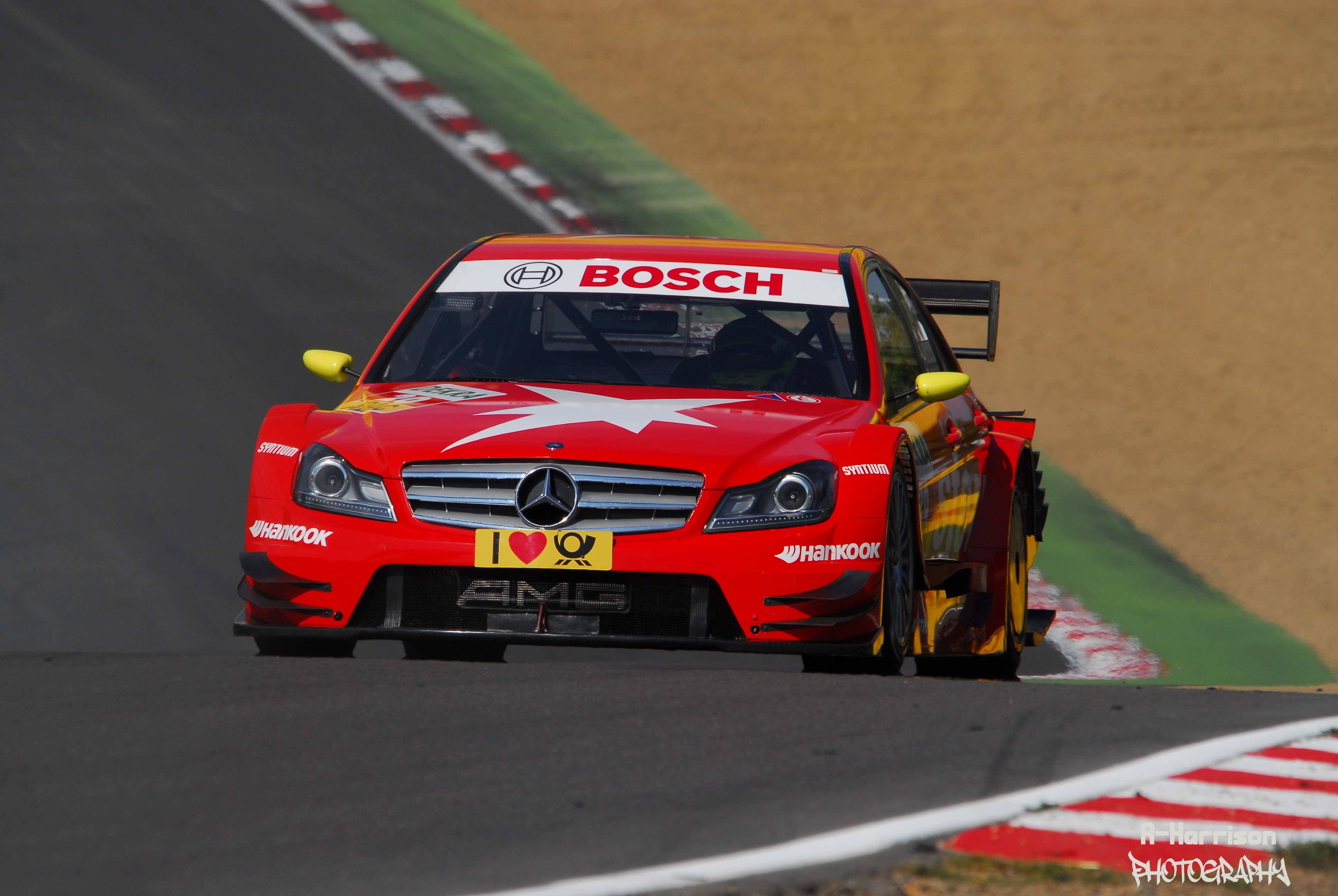 DTM Brands Hatch 2011